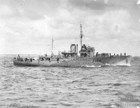 Starboard broadside view of the Bathurst Class Minesweeper (Corvette) HMAS Ipswich.